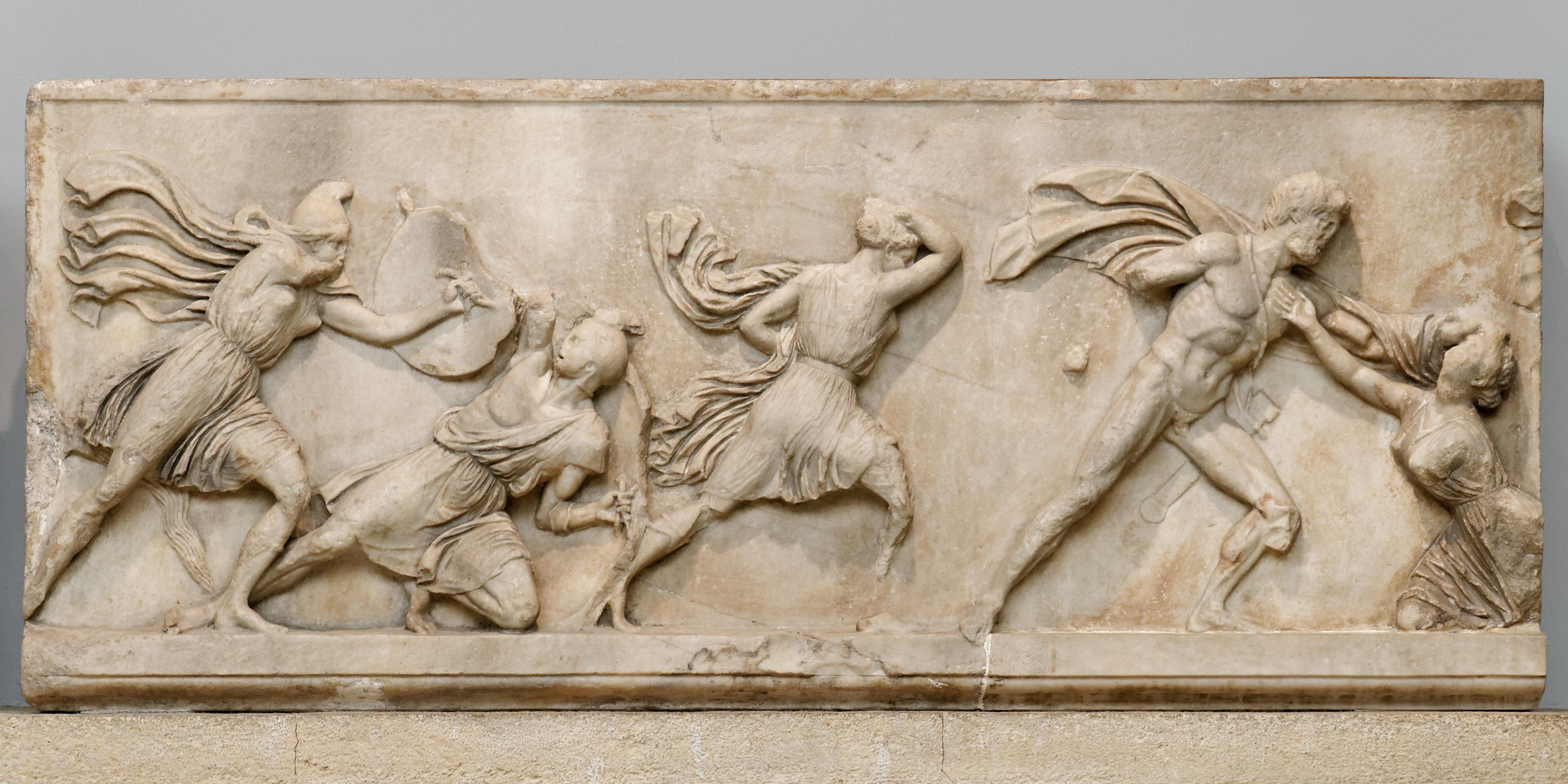 Detail of the Amazon Frieze from the Mausoleum at Halicarnassus: combats between Greeks and Amazons.